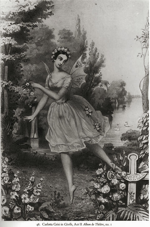 Carlotta Grisi as Giselle (1842). unknown author.